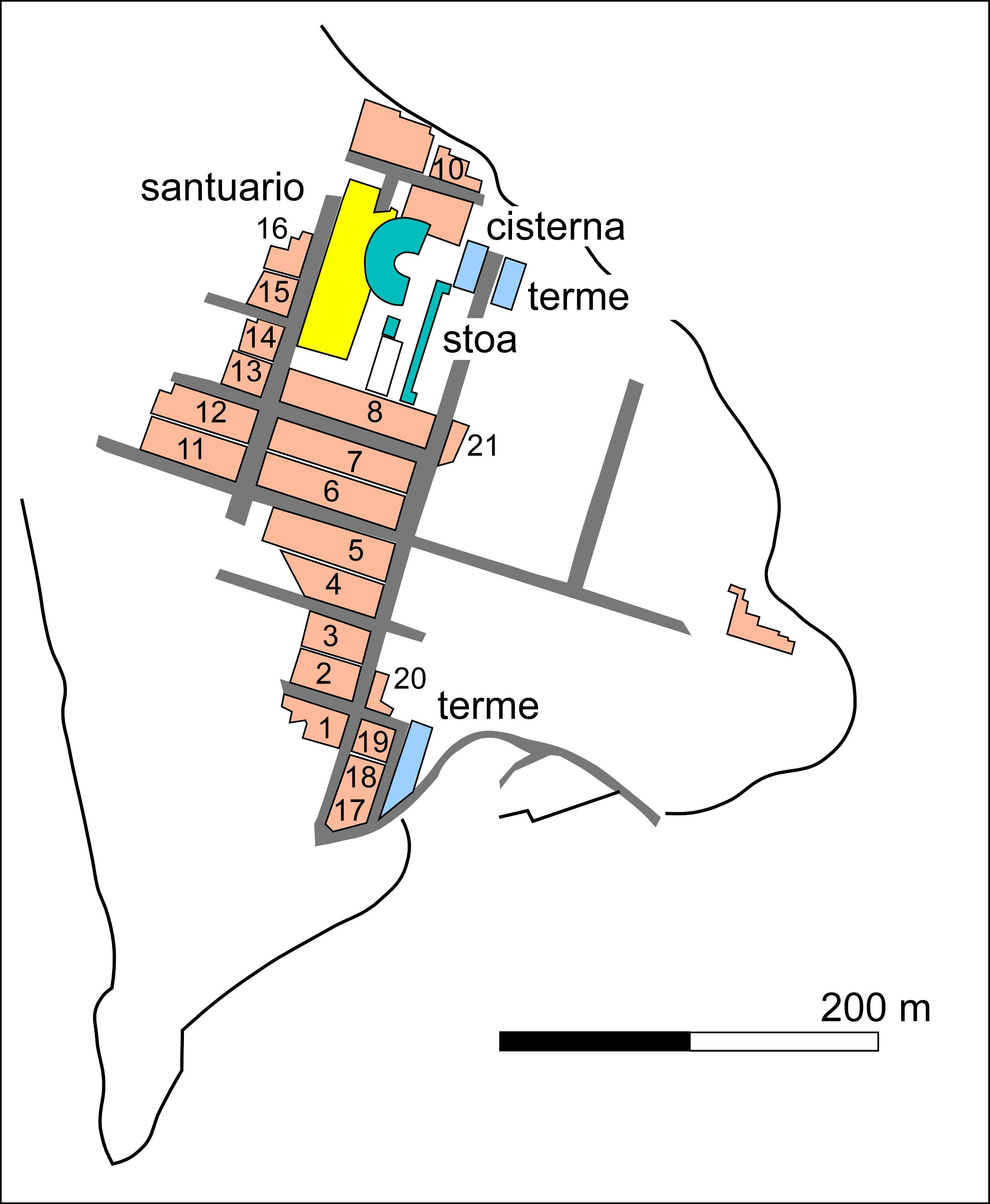 mappa di Solunto